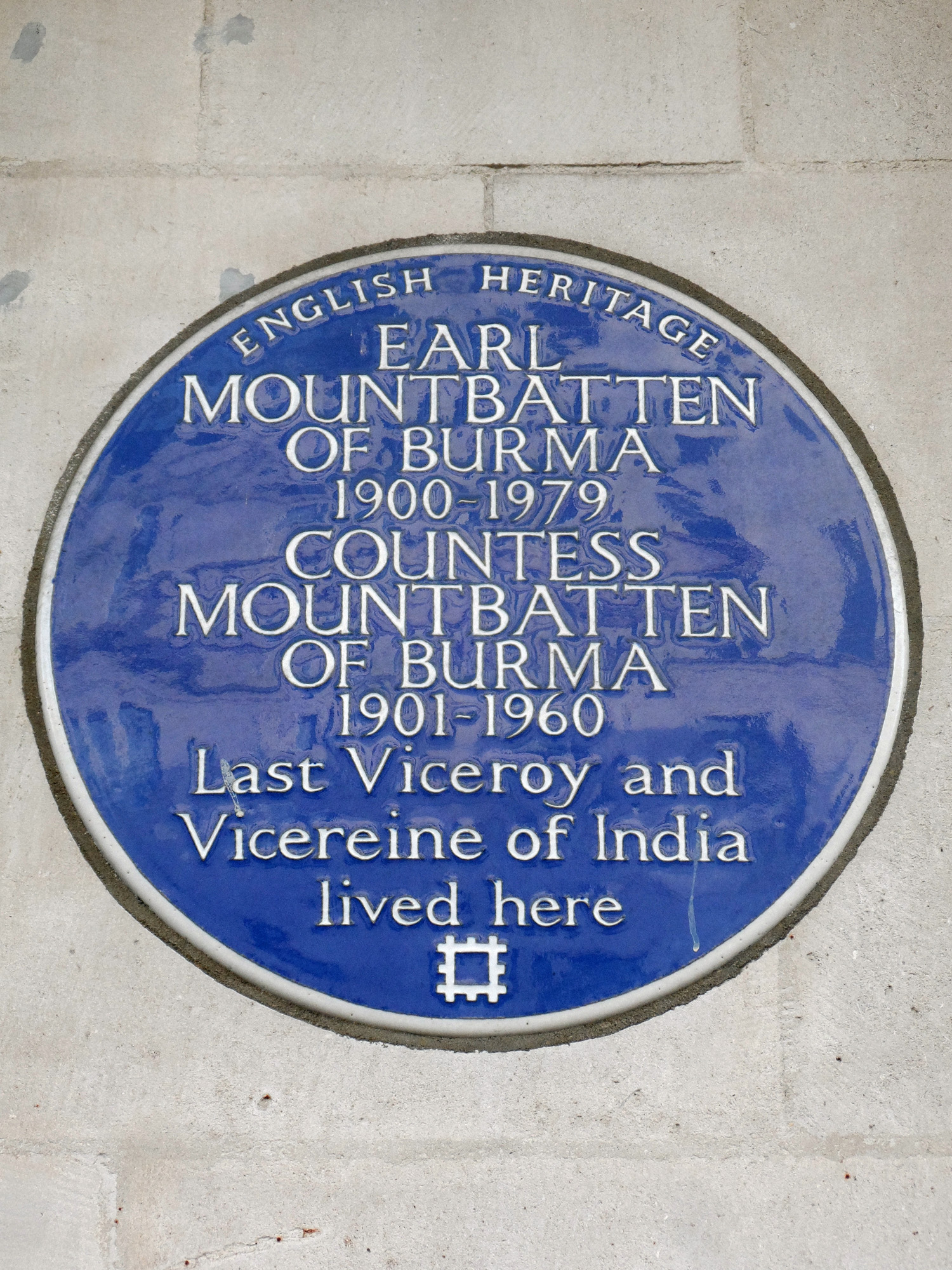 Blue plaque erected in 2000 by English Heritage at 2 Wilton Crescent, Belgravia, London SW1X 8RN, City of Westminster